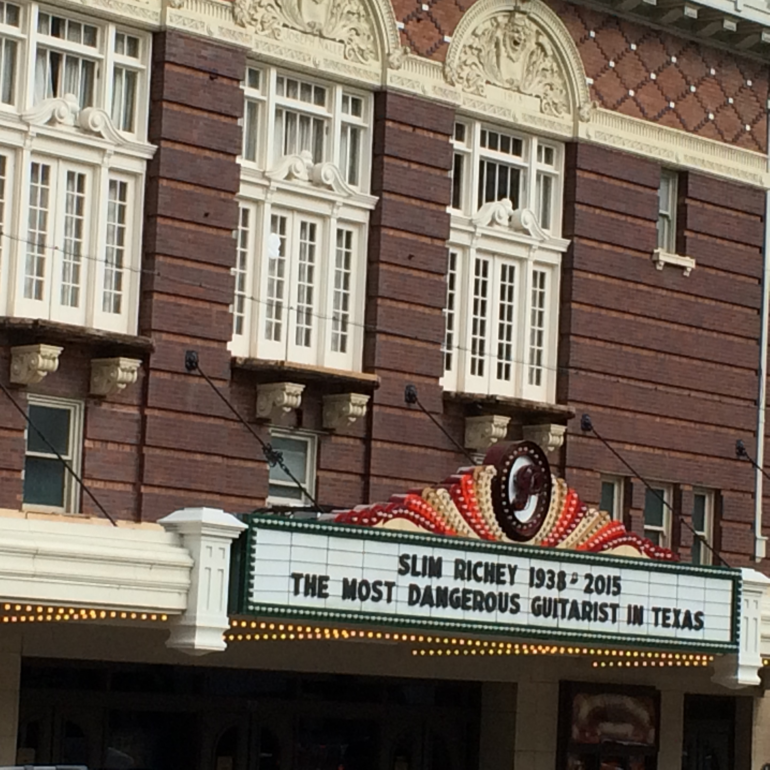 Austin's historic Paramount Theatre marked Slim Richey's passing with a marquee in his honor June 1, 2015.